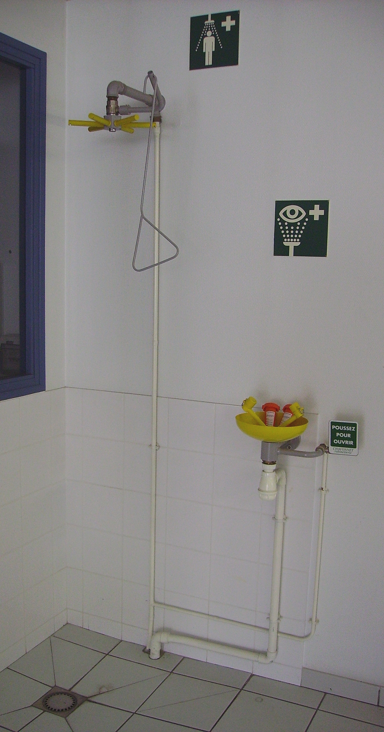 Safety equipment in a lab. From left to right: safety shower; wall-mounted and portable eyewashs, with the corresponding pictograms.